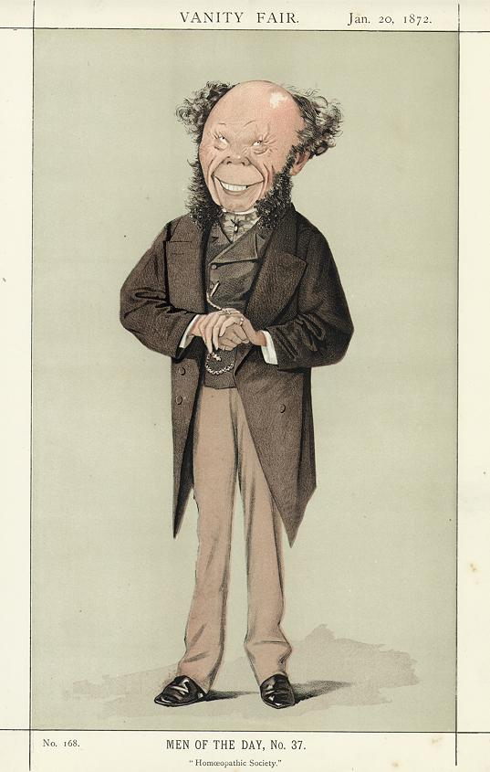 Caricature of Dr Frederick Quin (1799 - 1878). Caption read "Homoeopathic Society".